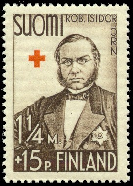 Postage stamp depicting Finnish statesman Robert Isidor Örn